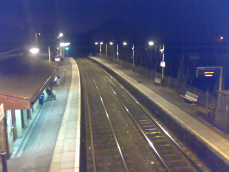 Giffnock Railway Station, photographed from the overhead walkway, by Mark Whiteside on March 10 2007.